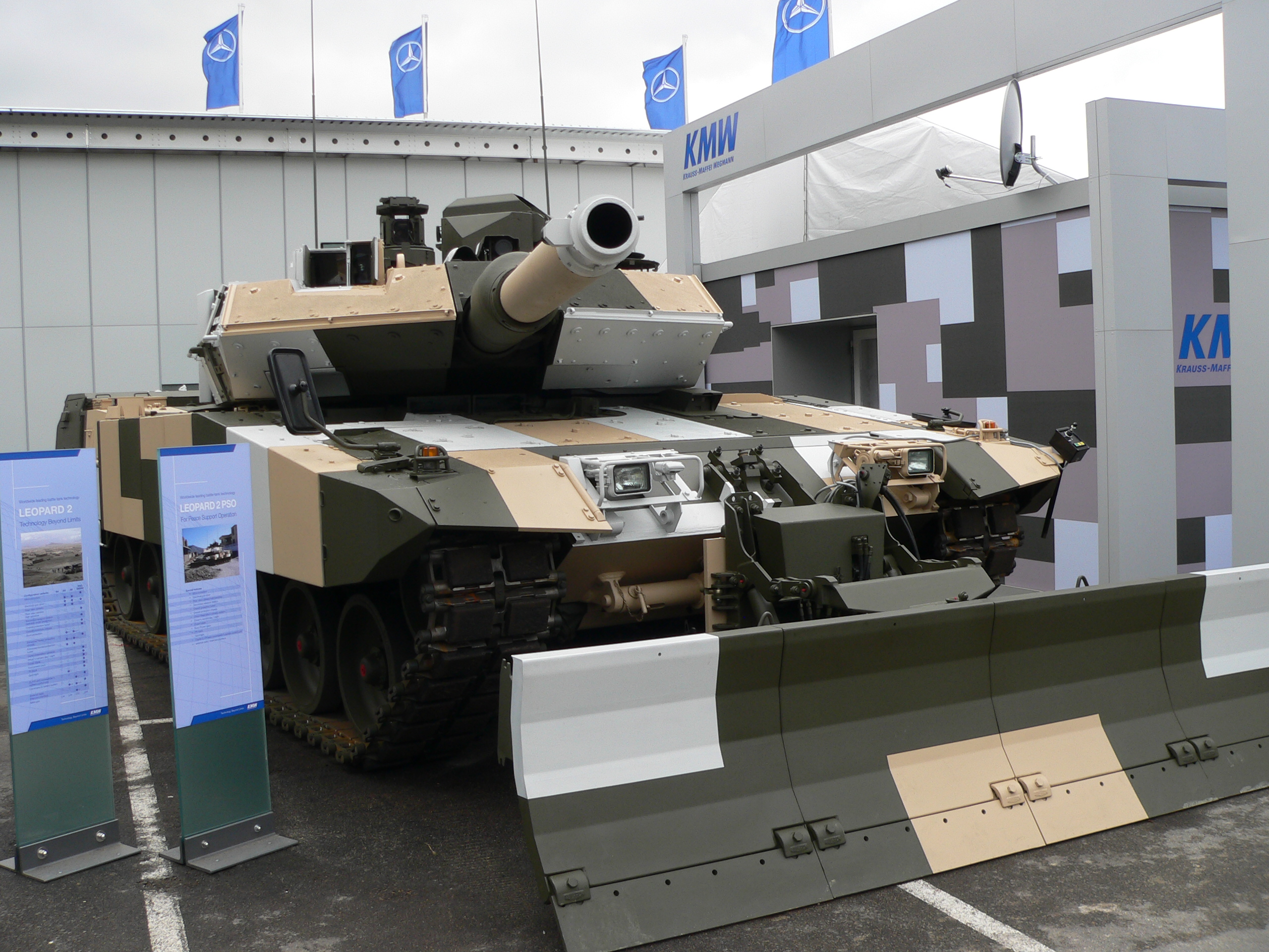 Leopard 2 PSO at the Eurosatory 2006